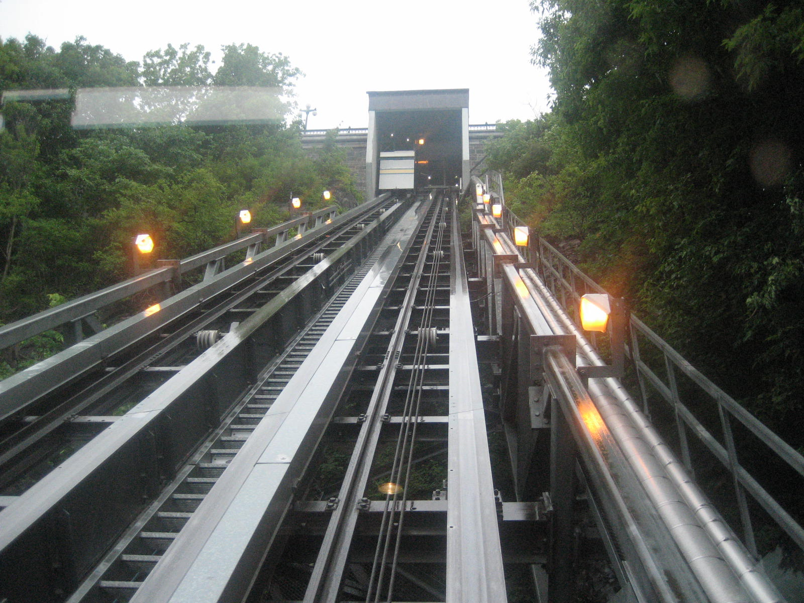 Incline Railway, Quebec City, Canada